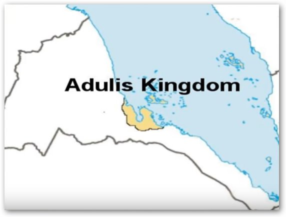 Adulis Kingdom, trade and political port center in Eritrea.